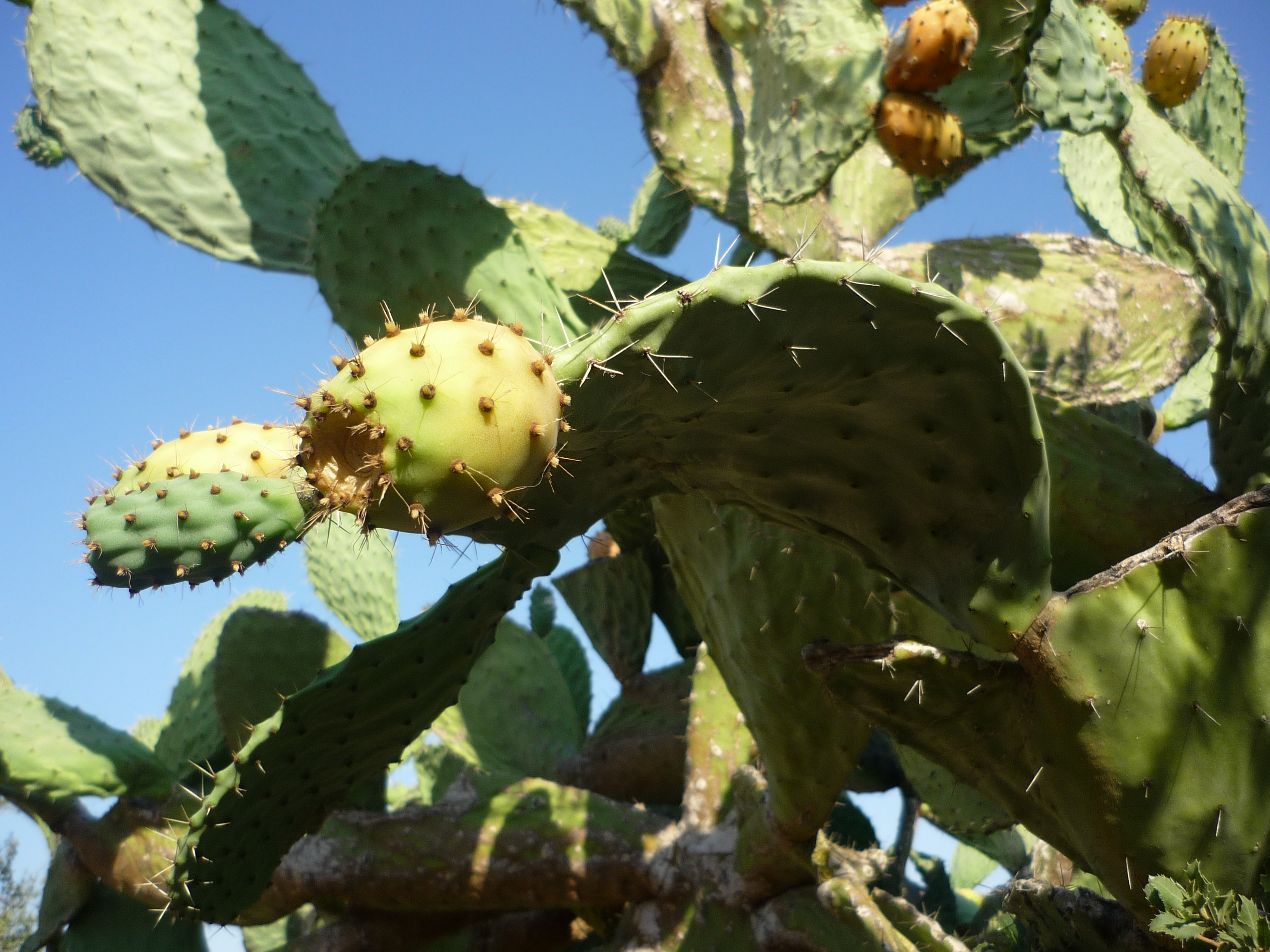 Misilyah is famous for Cactus Fruit